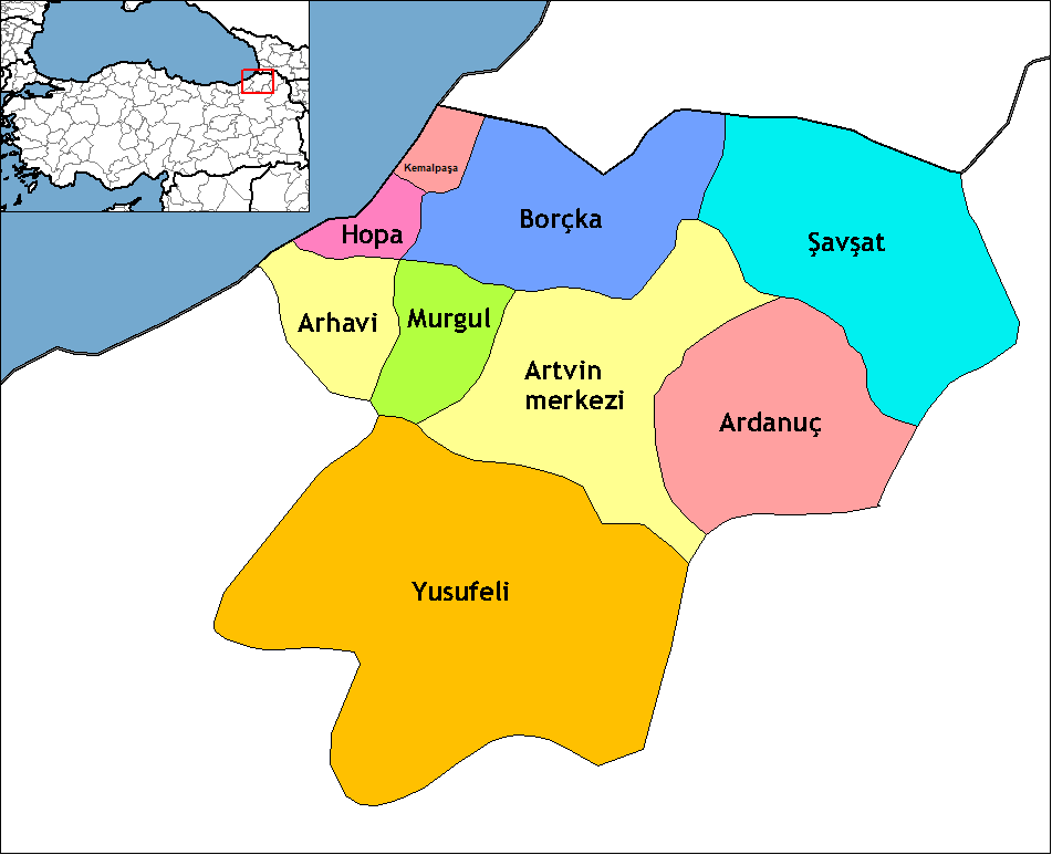 Map of the districts of Artvin province in Turkey. Created by Rarelibra 17:23, 1 December 2006 (UTC) for public domain use, using MapInfo Professional v8.5 and various mapping resources. Edited by One Homo Sapiens Corrected text where İ,Ş,ı,ğ,or ş occurs in name. Source: [statoids-com]. Increased font size and enhanced color differences among adjacent districts.